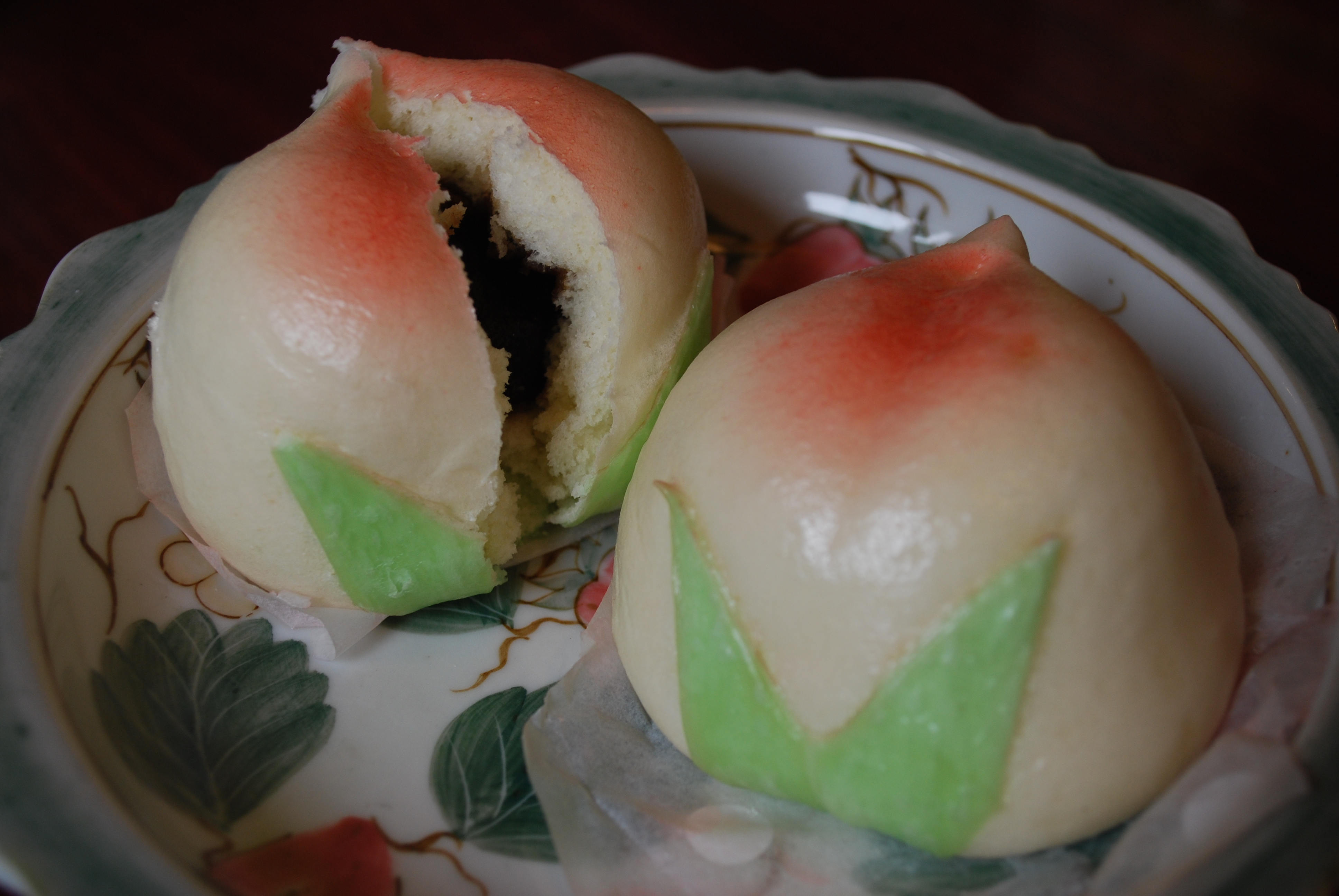 Peach steamed bun,Narita-city,Japan